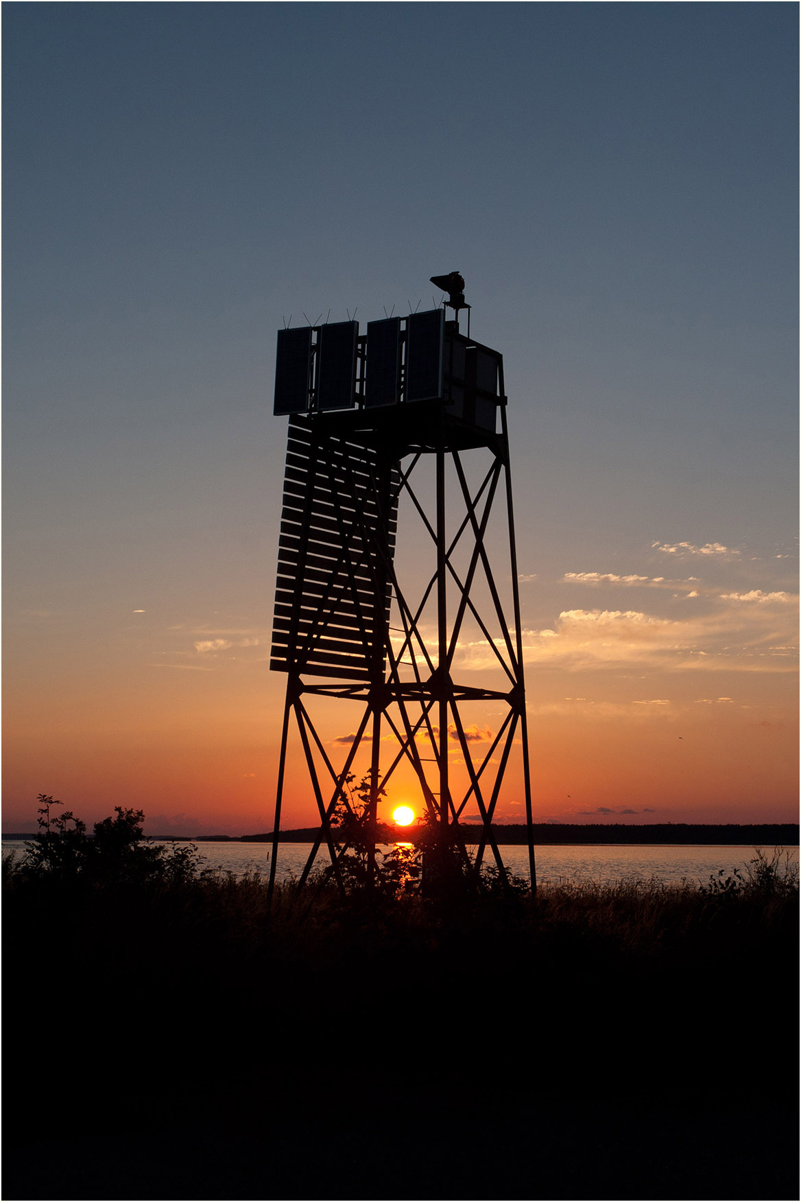 Holmi front light beacon